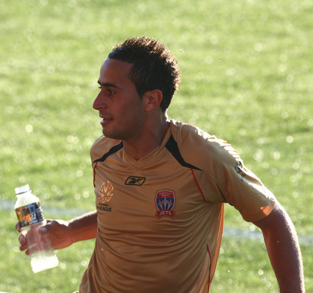 Post-match, Tarek Elrich at Energy Australia Stadium.